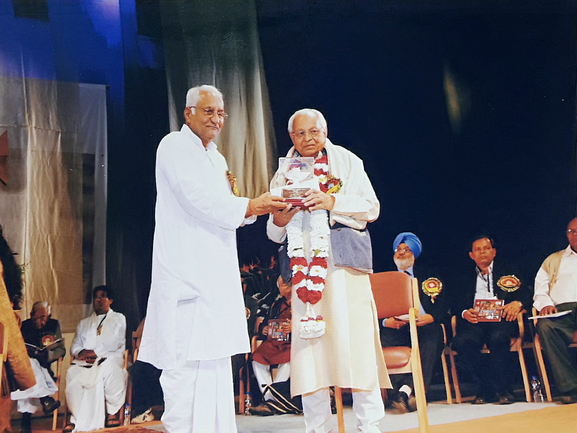 Chinu Modi and Vishwanath Prasad Tiwari on Sahitya Akademi Award 2013